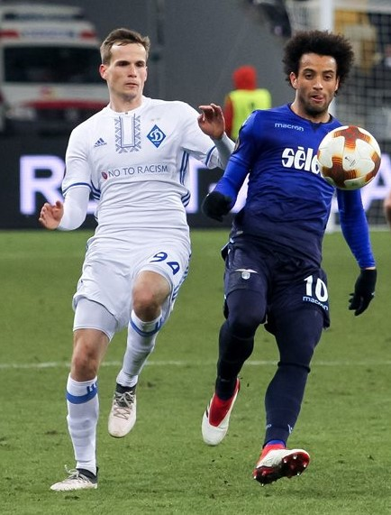 Tomasz Kędziora, Felipe Anderson